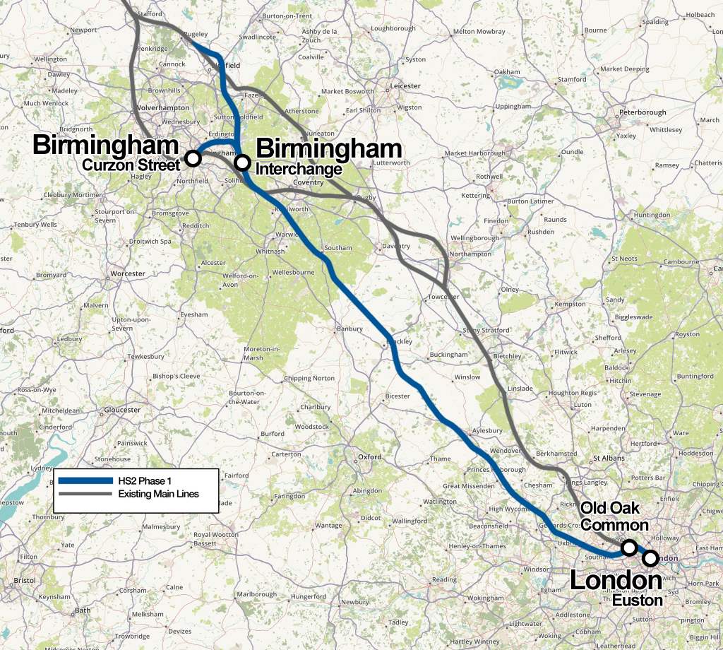 Outline map of the planned phase 1 route of High Speed 2 (HS2) from London to Birmingham in England, UK This map may be incomplete, and may contain errors. Don't rely solely on it for navigation.